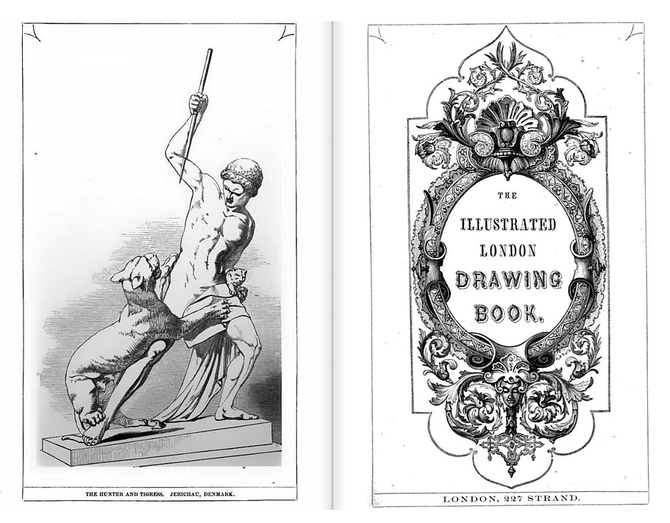 The illustrated London drawing book, title plate and title page, 1852